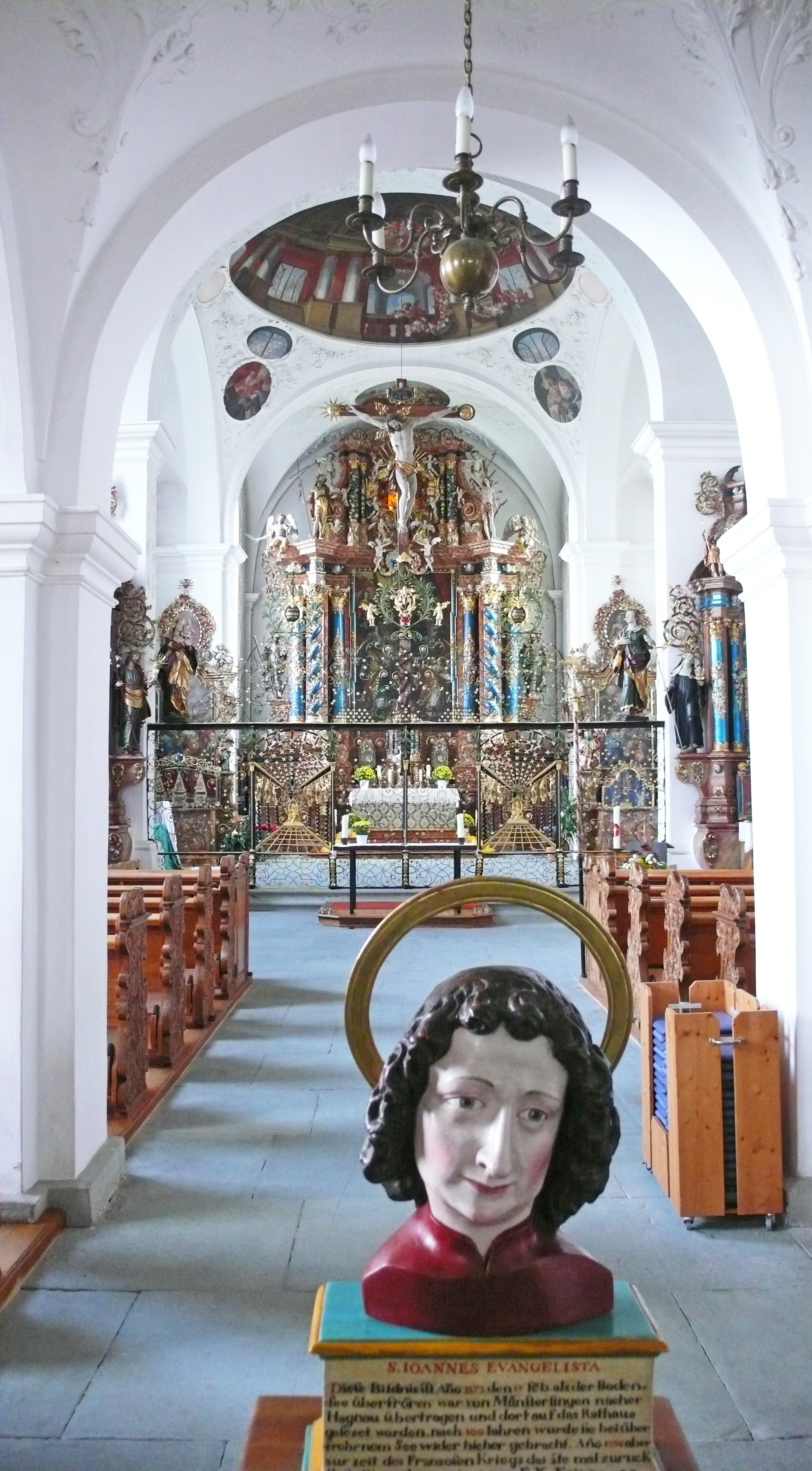 Interior of Saint Remigius church in Münsterlingen, Switzerland.